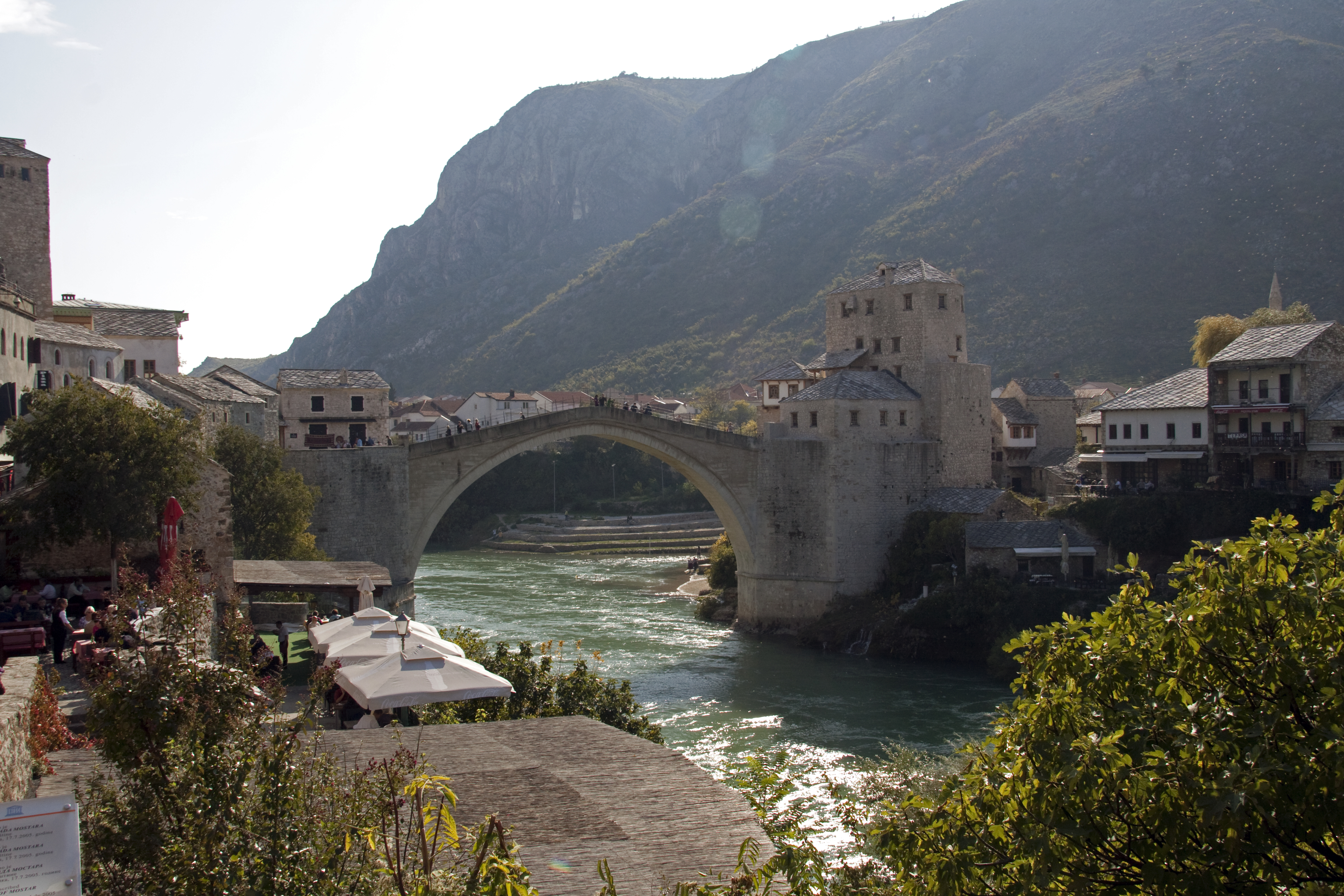 The Old Bridge (Stari Most) over the river Neretva in Mostar. The bridge was built during the 16th Century, but was destroyed on the 9th of November 1993 by the Croatian defence force. The bridge was rebuilt and opened in July 2004. Not a good shot as it was taken into the sun